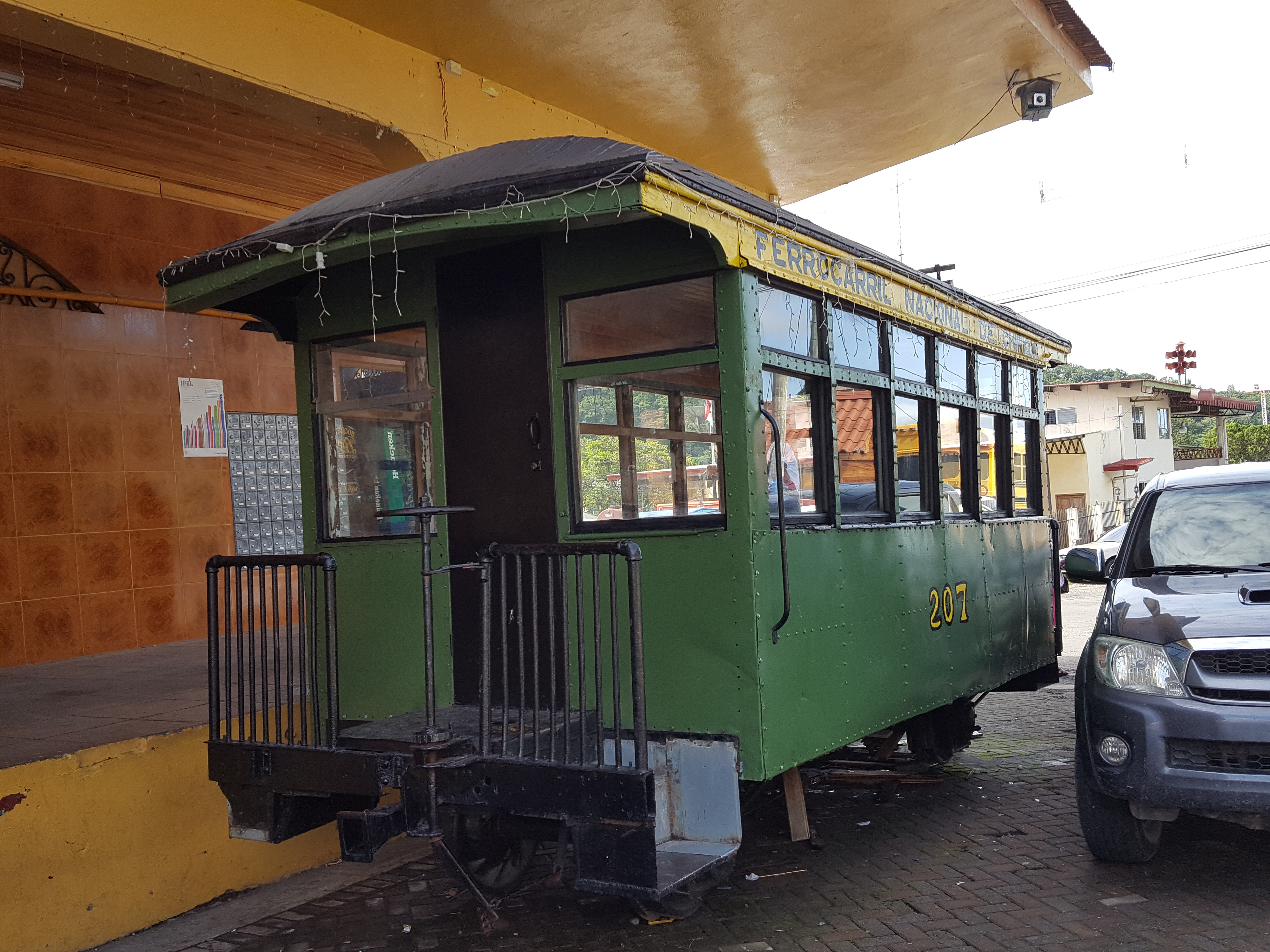 Ferrocarril de Chiriqui passenger car display by what used to be the Boquete station.